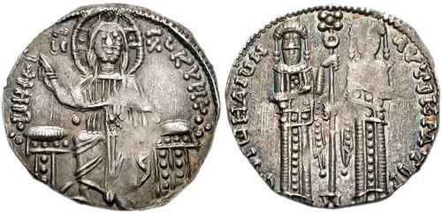 Andronicus II Palaeologus, with Michael IX. 1282-1328. AR Basilikon (20mm, 1.68 g, 11h). Constantinople mint. Struck 1304-1320. Christ, nimbate, enthroned and holding Gospels; small dot by each elbow / Andronicus and Michael standing facing, holding patriarchal cross on base between them. DOC V 524 var. (break in legend); Bendall 167.1; SB 2402 var. (no dots by elbow). VF, gray and slightly iridescent toning, an area of flat strike on each side.